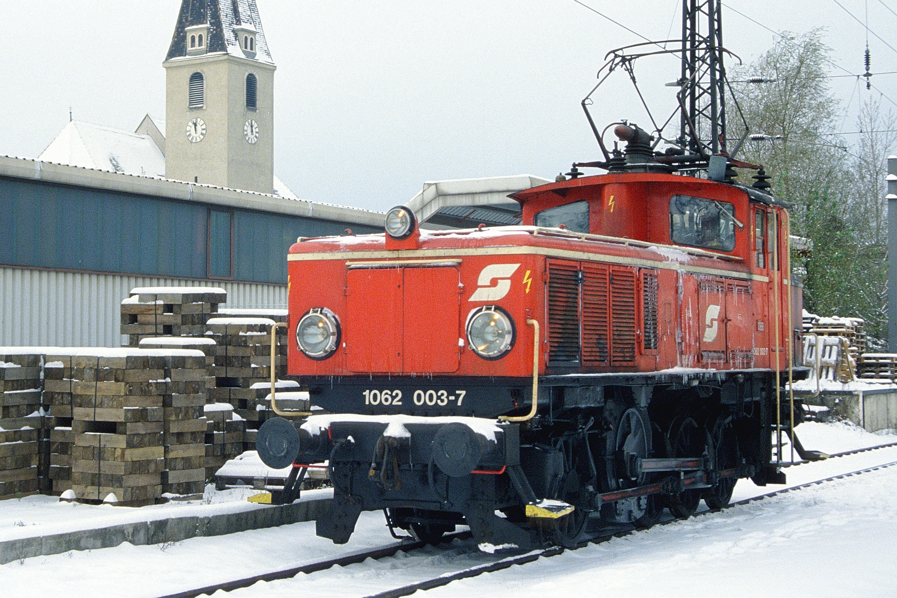 ÖBB electric shunter 1062 003-7 at Penzing station. (scan from slide)